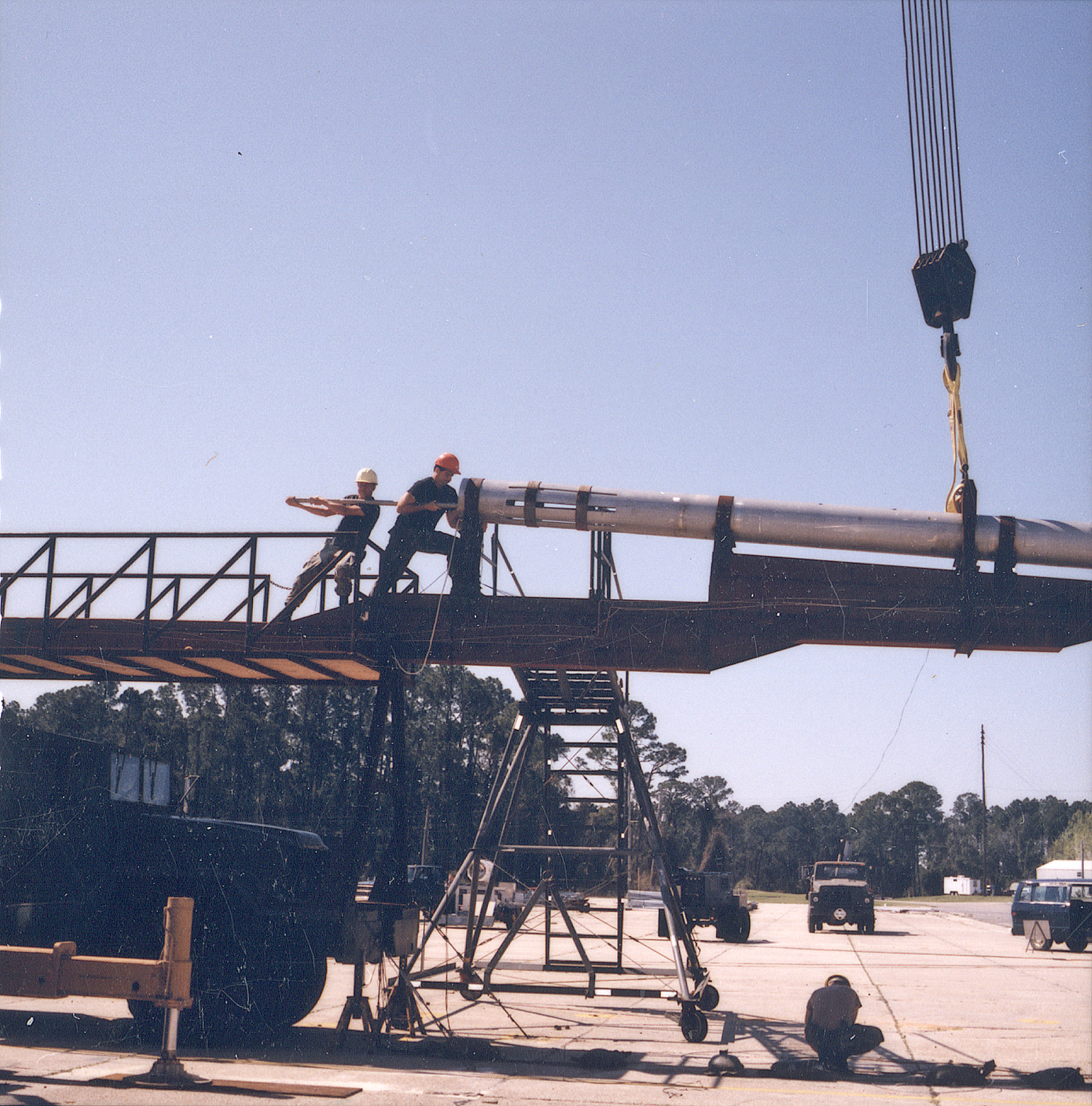 Eglin Air Force Base personnel load an aeroshell model of Deep Space 2 into the airgun.